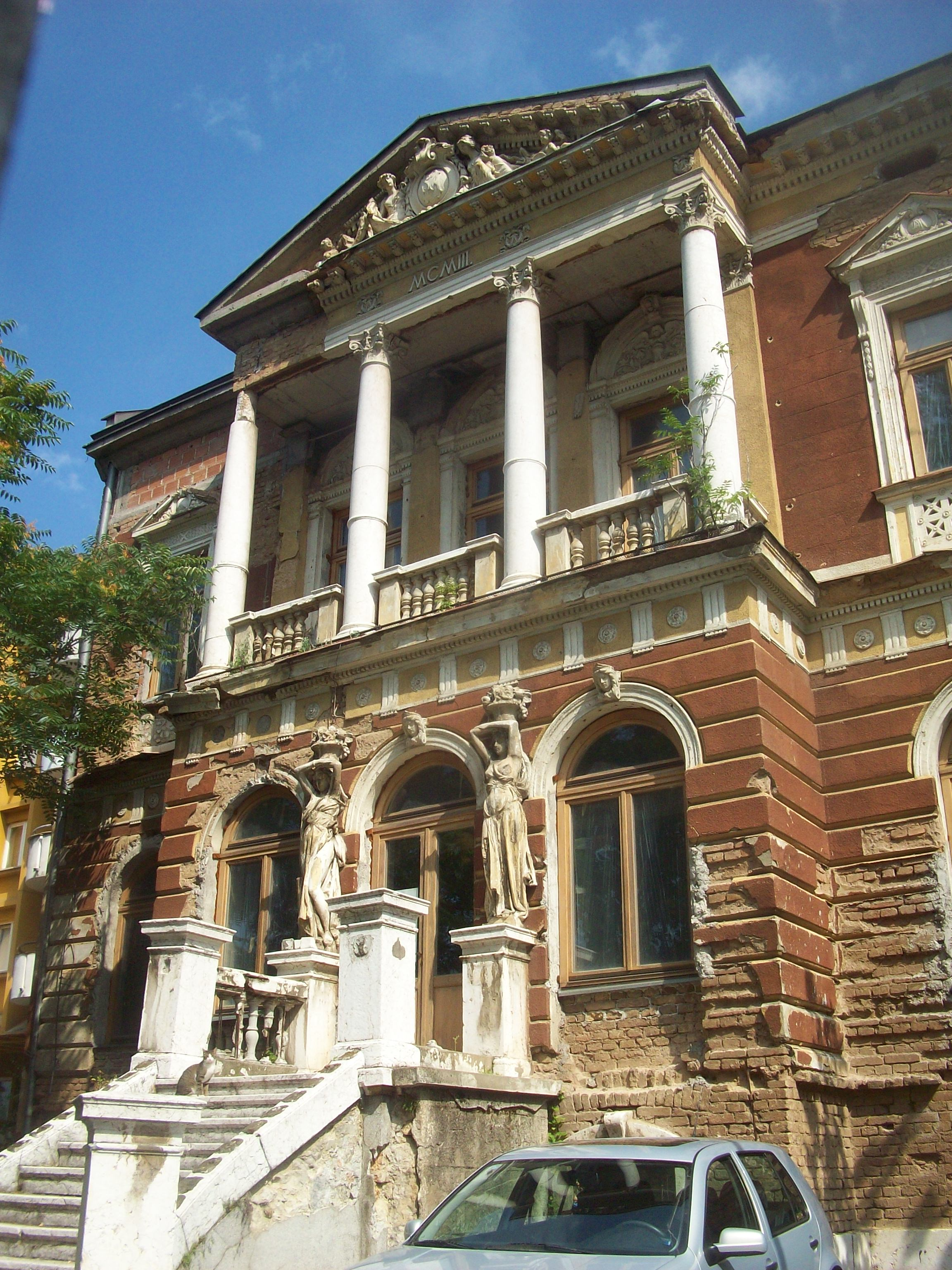 Sarajevo, Villa Mandic